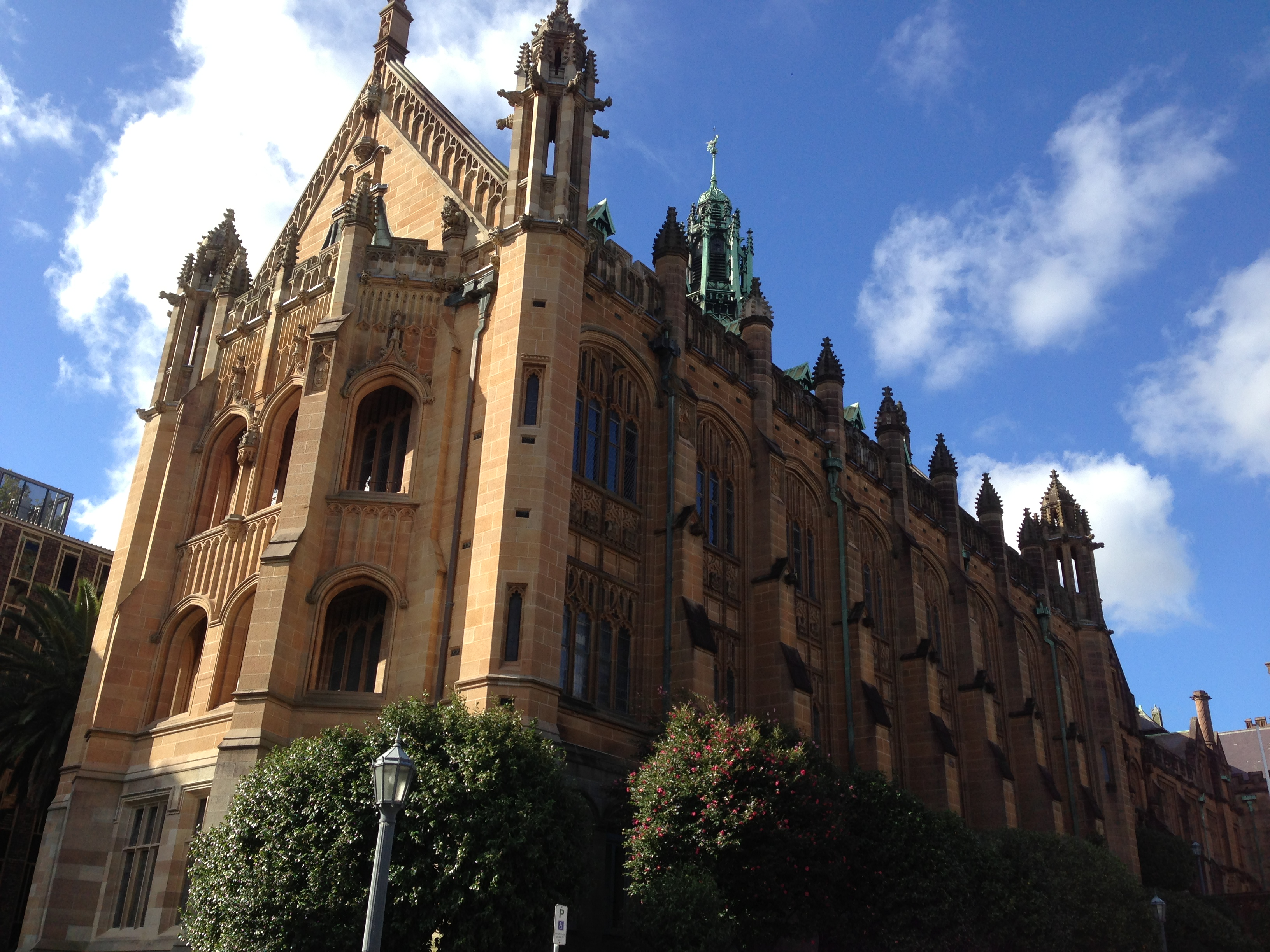 MacLaurin Hall, University of Sydney